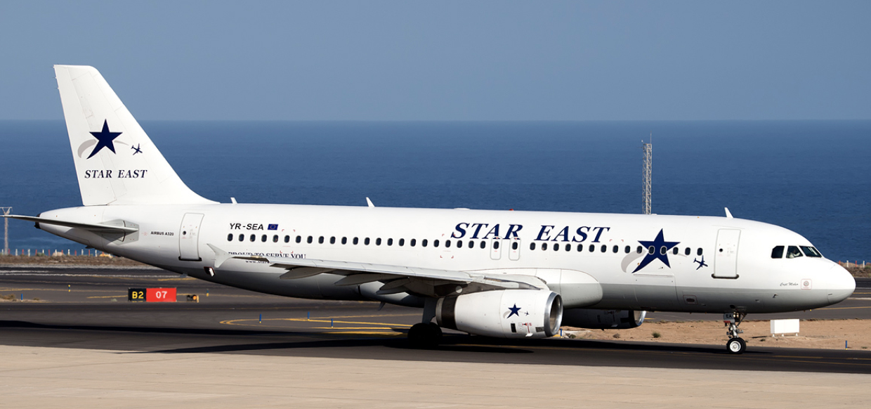 Airbus A320-200 of Star East Airlines